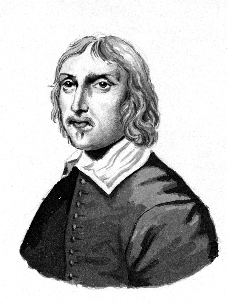 Self portrait drawing c. 1635 - c. 1710